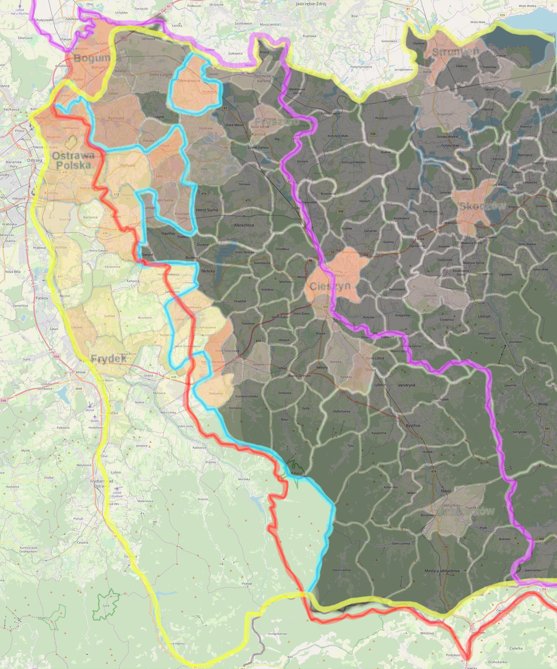 Region of Zaolzie in Czechia, historical borders based on "Zaolzie. Mapa turystyczna, Cieszyn, 2012, ISBN: 978-83-927052-7-7"; with Polish-speaking population from the 1910 census (File:Śląsk Cieszyński-Polacy 1910.png) Yellow line - border of the Duchy of Cieszyn in the 16th century Blue line - border from the 5th of November 1918 Purple line - Polish-Czech state border 1920-1938 and after 1945 Red line - border from the 10th of December 1938 Compare also with: File:Map of the population Manufacturing Distrct Eastern Moravia and Silesia.jpg